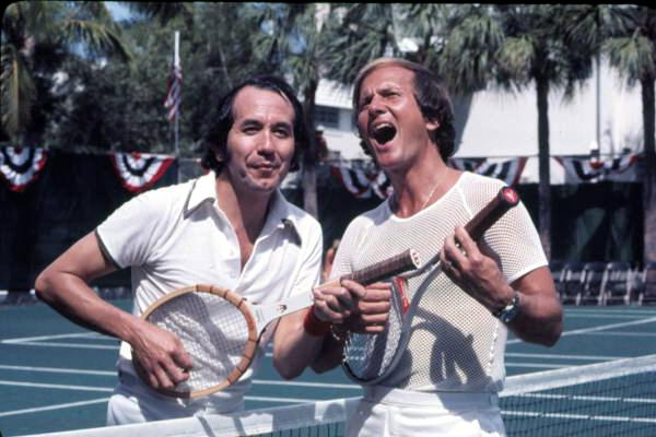 Musicians Trini Lopez and Pat Boone during a tennis event: Fort Lauderdale, Florida. (State Library and Archives of Florida)